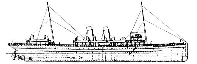 Diagram showing growth in the size of Turbine-propelled Merchant Ships. Figure 40 from The Steam Turbine, section showing the The Queen